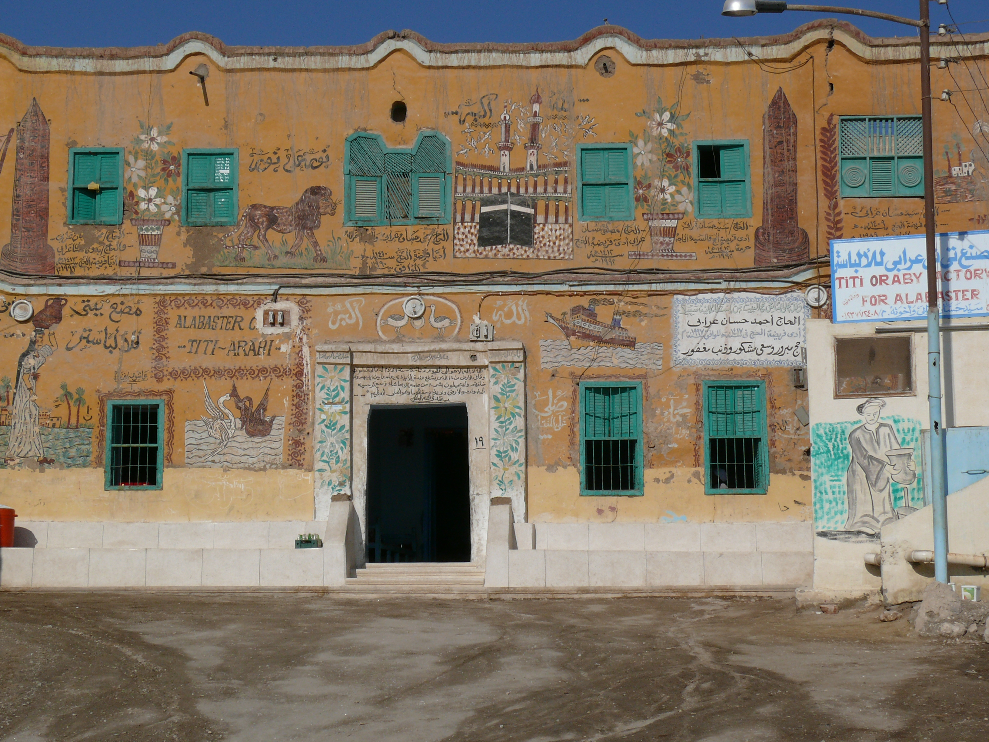 Sheikh Abd el-Qurna, Egypt